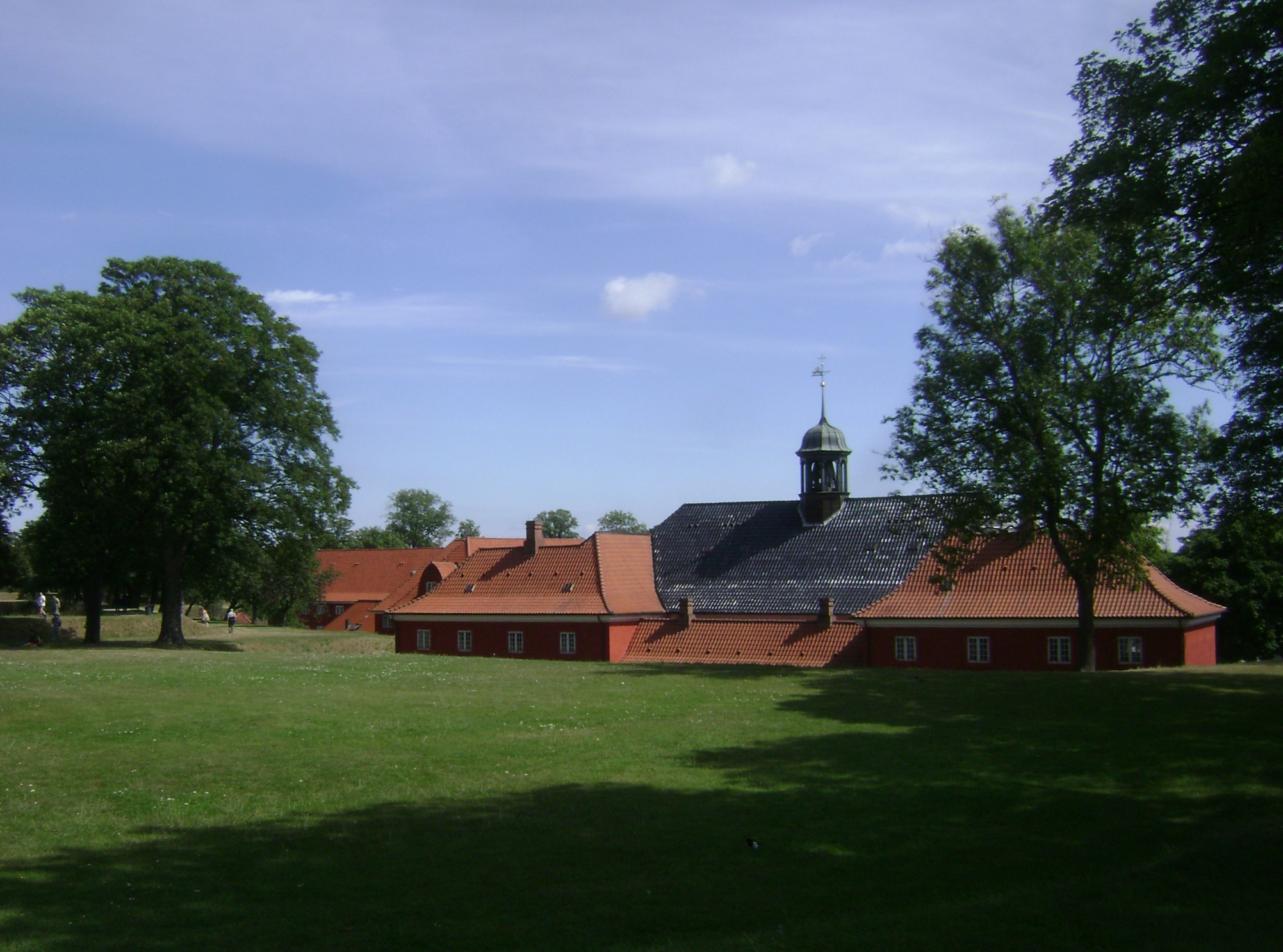 Denmark. Capital Region. Copenhagen